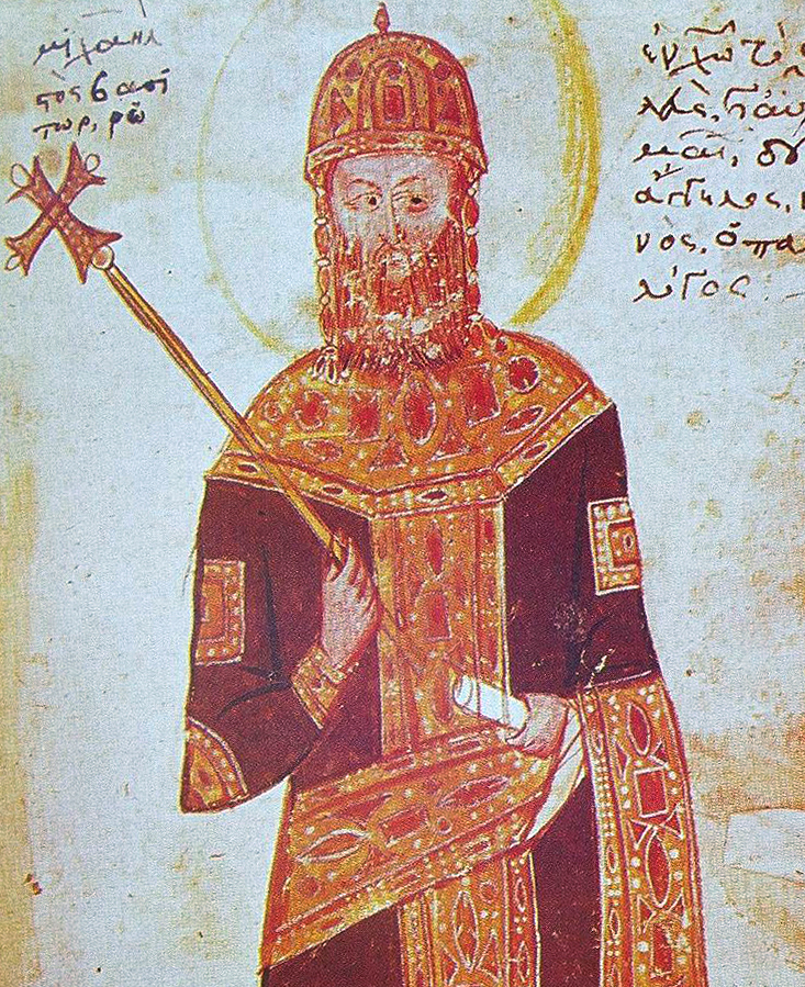 Michael VIII Palaiologos. Miniature from the manuscript of Pachymeres' Historia, 14th century. Munich, Bayerische Staatsbibliothek.